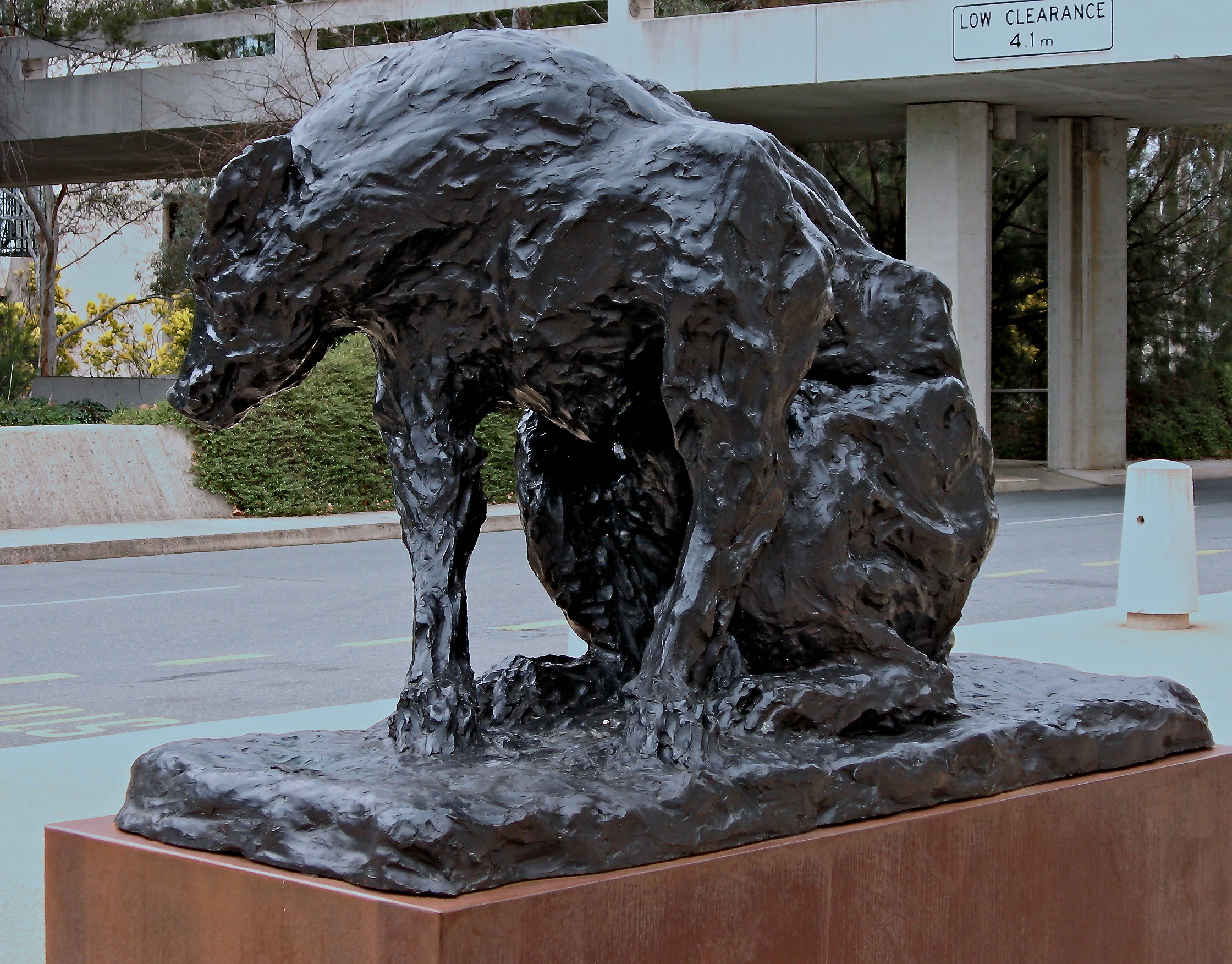 Image of "The Dog" by the artist Rick Amor for an article on the artist. Photo taken at the National Gallery, Canberra by Dnwilson (talk) 07:18, 18 November 2007 (UTC). The Sculpture has been moved to the Gallery Sculpture Garden near the lake. Dnw (talk) 09:49, 21 March 2010 (UTC)